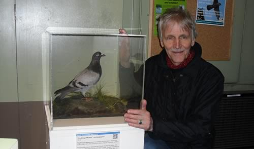 Singer Dave Sudbury with The King of Rome, a pigeon, about which he wrote and sang a famous song of the same name.